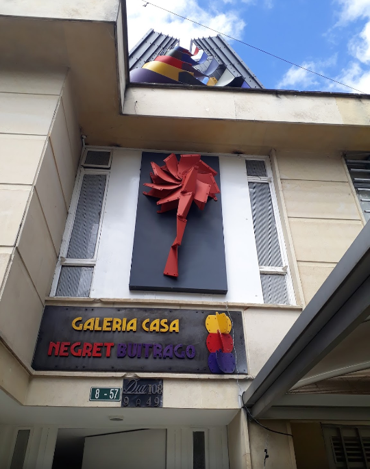 Galería Casa Negret Buitrago ( Bogotá- Colombia)